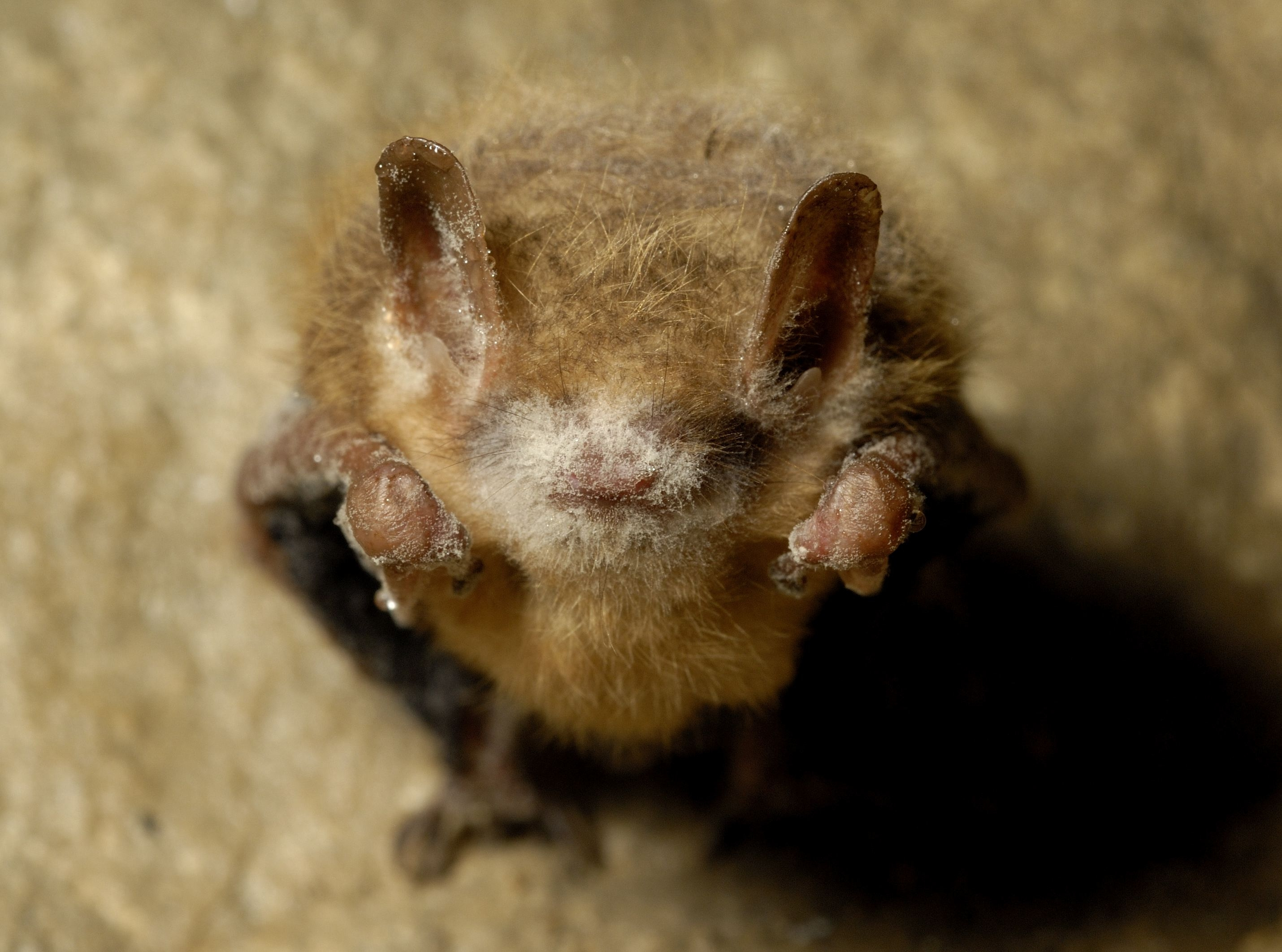 Tri-colored bat with visible symptoms of WNS, Cloudland Canyon State Park, Georgia Photo credit: Pete Pattavina